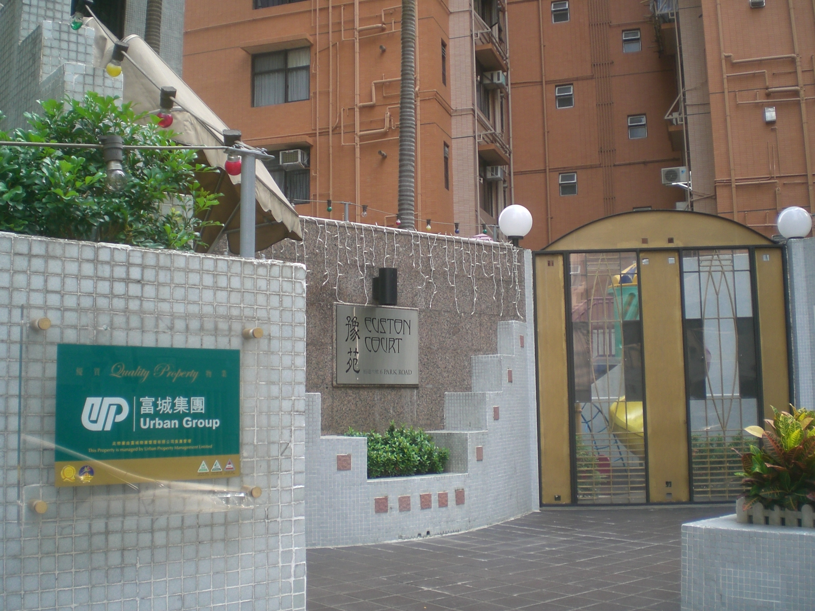 西環zh:半山區 柏道 豫苑 富城集團zh:物業管理